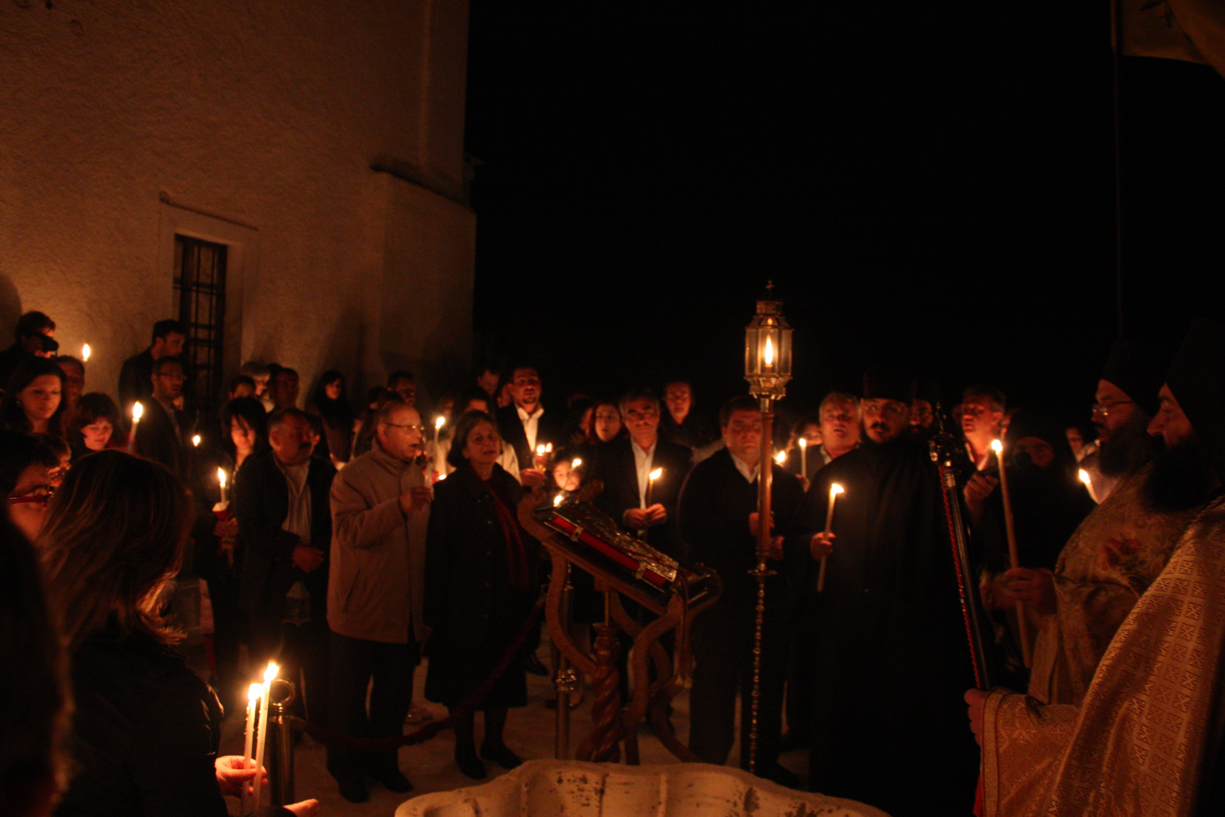 Easter in Santorini